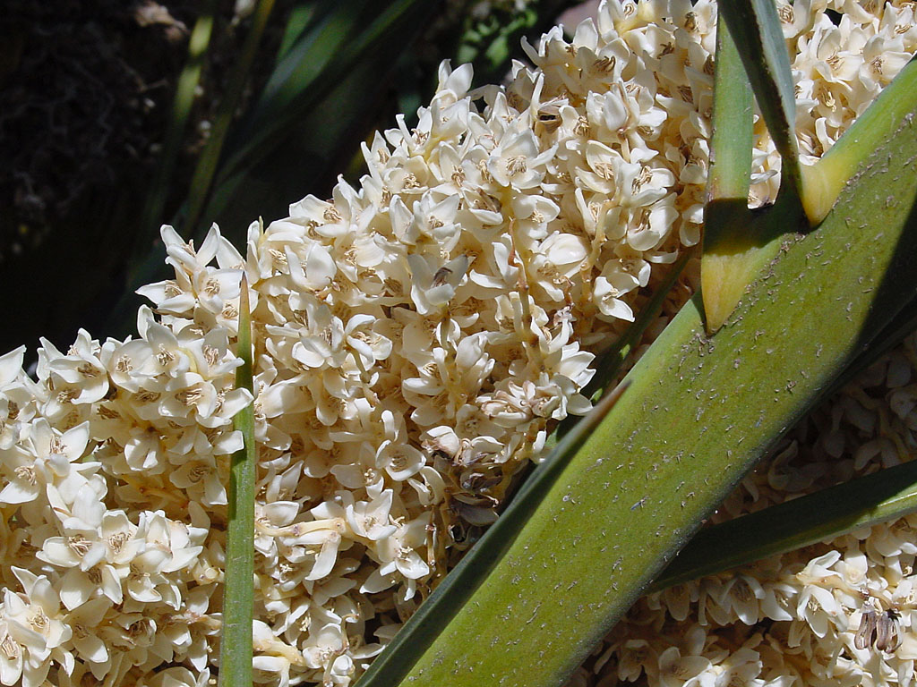 Canary Island Date Palm flowers. Photo taken in Gran Canaria.